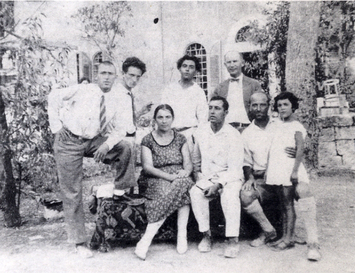 Jerusalem, Kandinof courtyard, 1925. Sitting (left to right): Ms. Sarah (Sonia) Zaritzky, Israel Paldi, Joseph Zaritzky and daughter Etia. Standing (left to right): Arieh Lubin, Joseph Pressmane, Chaim Gliksberg, Todros Geller. NOTE: Baruch Agadati is NOT in this photo!!!